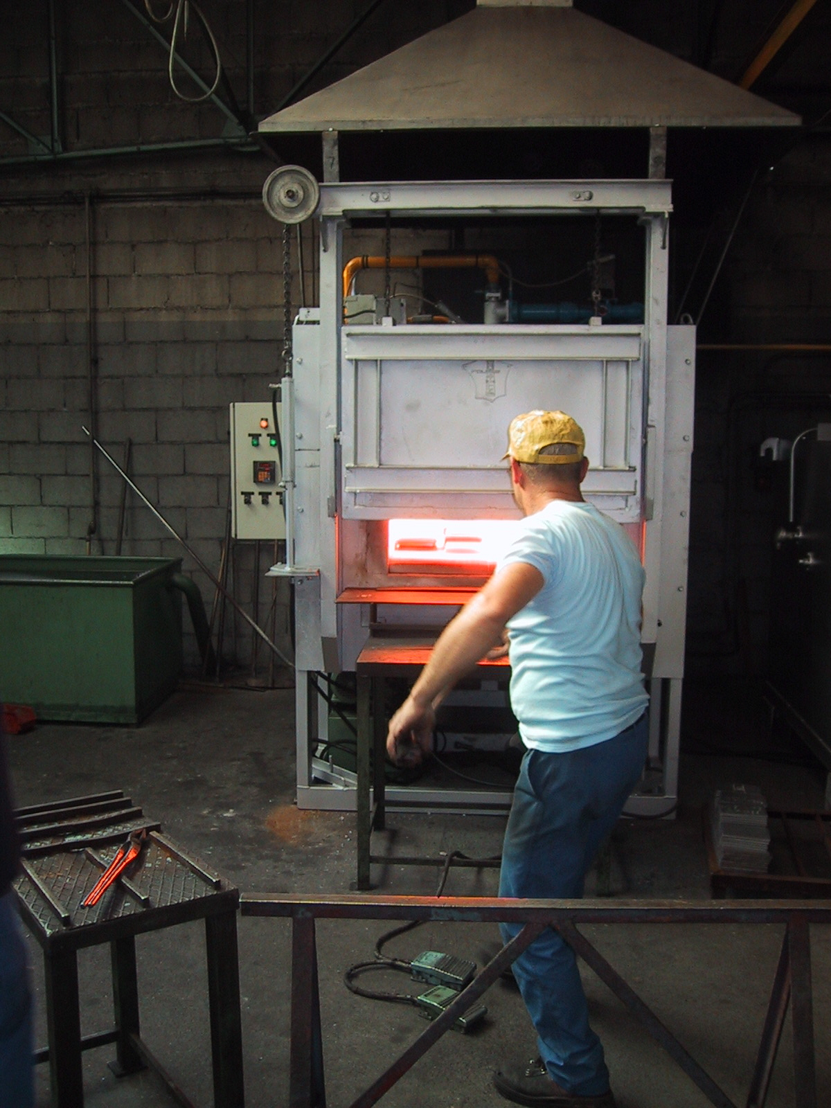 Industrial Forge (Boisselet, France)